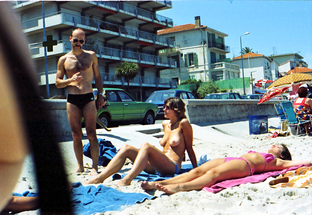 Beach in Cannes France 1980